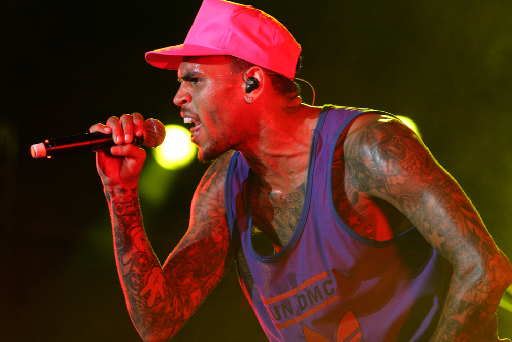 Chris Brown Performs at Supafest 3 Sydney, Australia 2012.